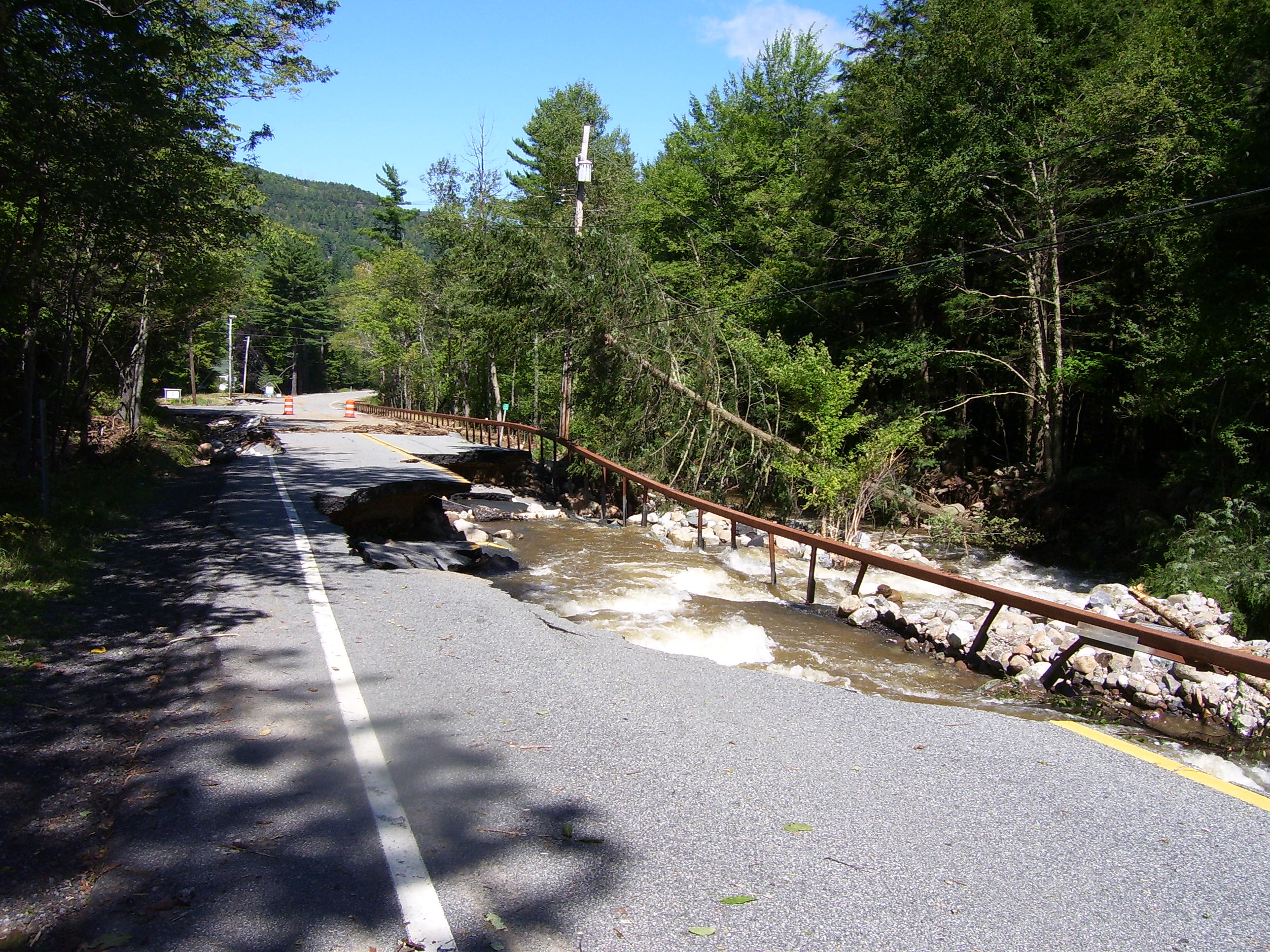 Photograph of Route 73 looking north, St. Huberts, Town of Keene, New York on 29 August 2011 after Hurricane Irene. Ausable Road enters from the left by the orange barrels.